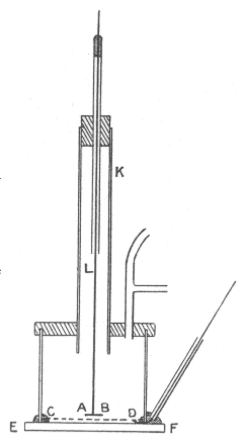 Thomson's e/m equipment in his 1899 photoelectric experiment.